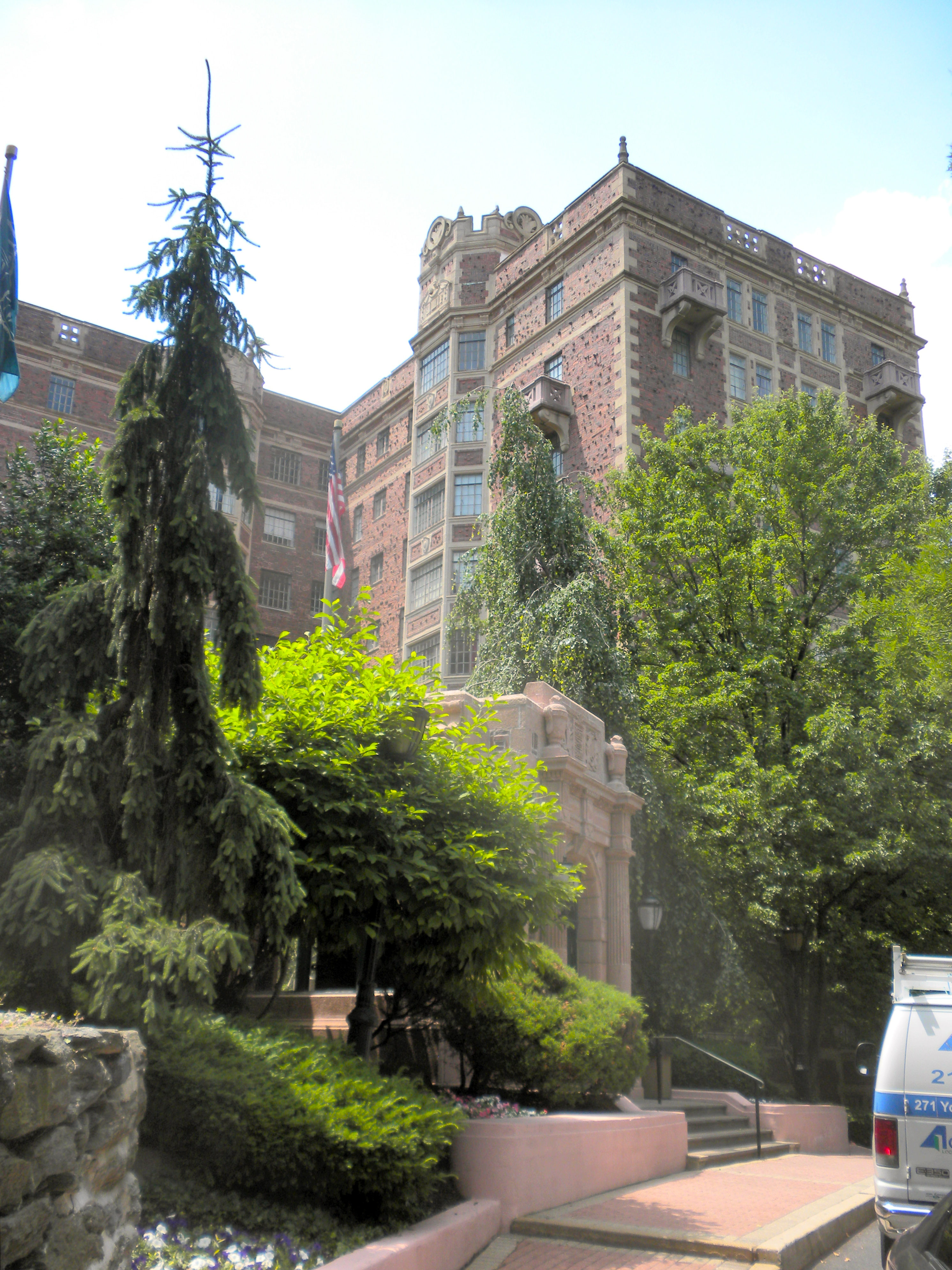 Alden Park Manor on NRHP since August 15, 1980. At School House Lane and Wissahickon Avenue in East Falls neighborhood of Northwest Philadelphia